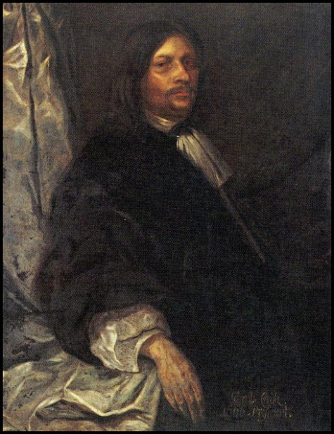 Contemporary painting of Lorentz Creutz the elder (1615-1676).